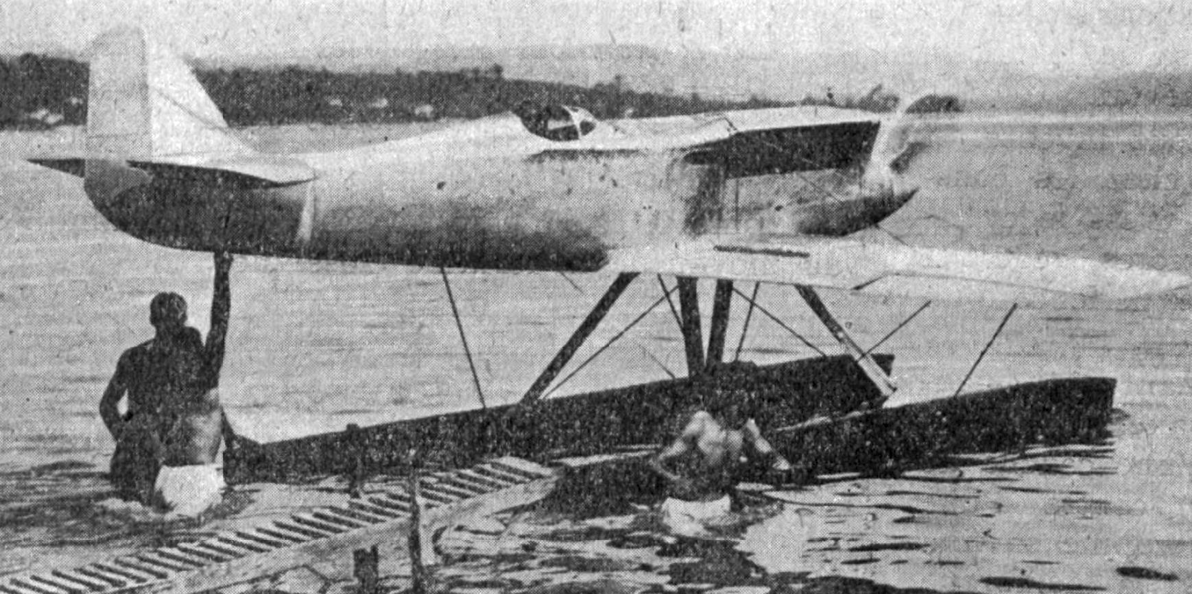 Fiat C.29 prototype with original tail configuration. Photo from L'Aérophile October,1929